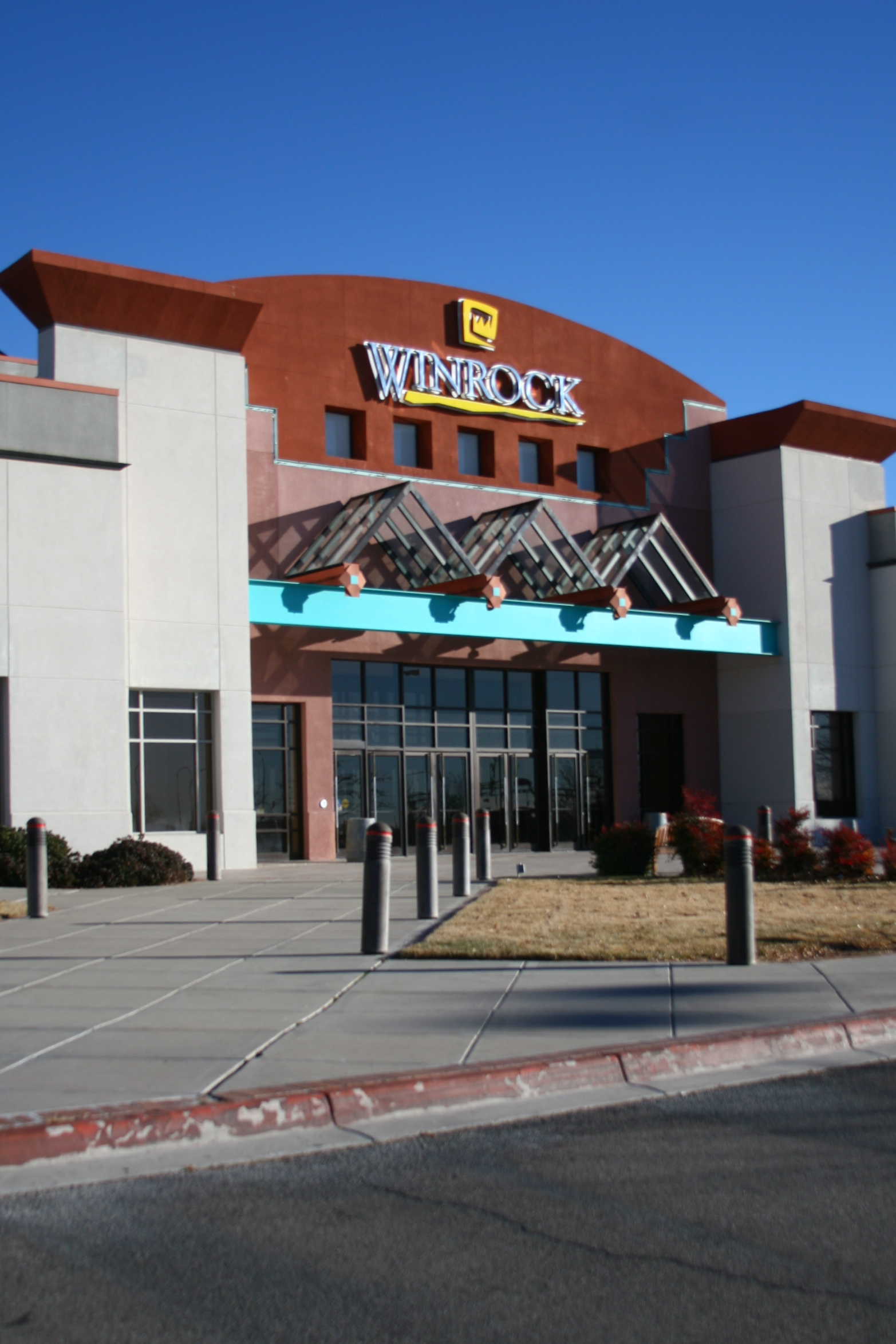 Main entrance to the Winrock Shopping Center